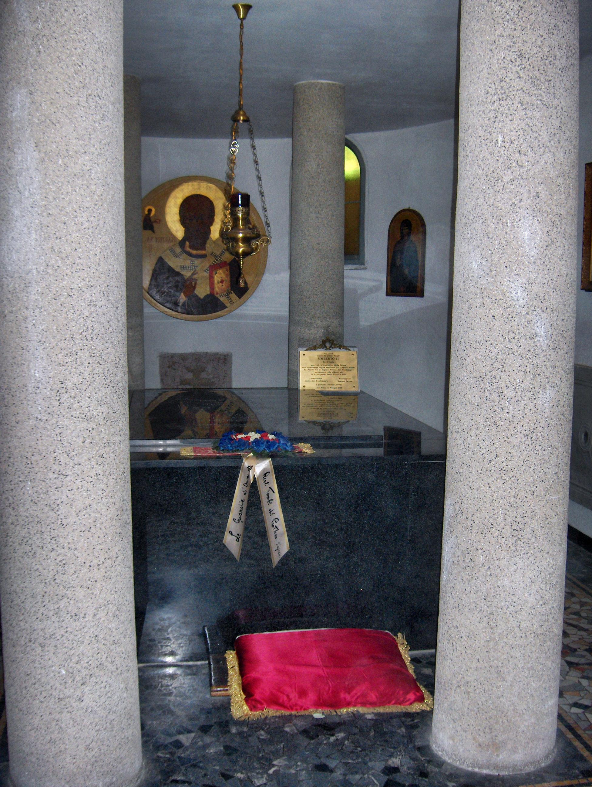 Tomb of Nicholas I of Montenegro and queen Milena; crypt of the Russian Orthodox Church (Church of Christ the Saviour, St. Catherine and St. Seraph). Sanremo, Italy